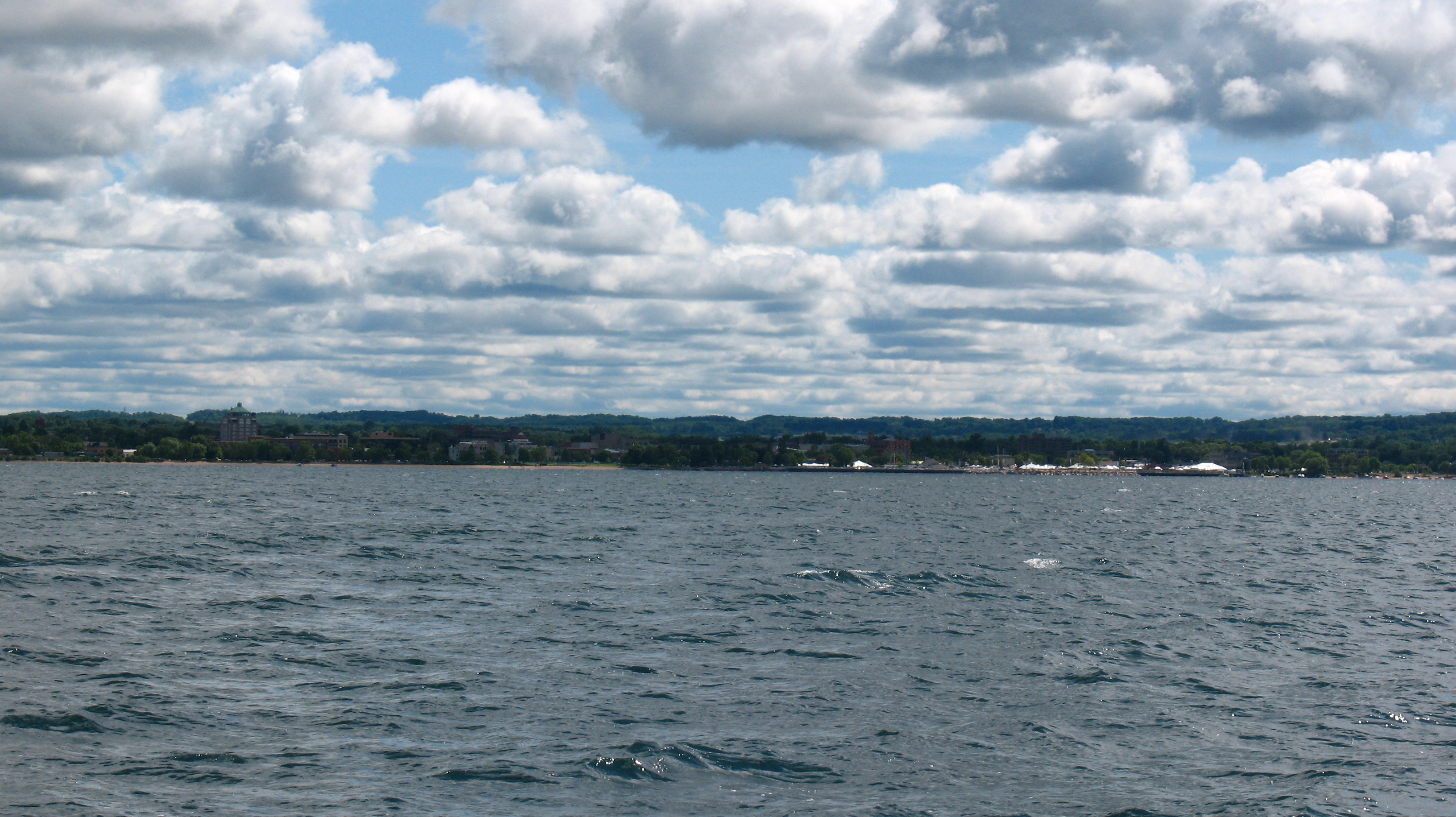 Downtown Traverse City, MI, USA, as viewed from West Grand Traverse Bay.